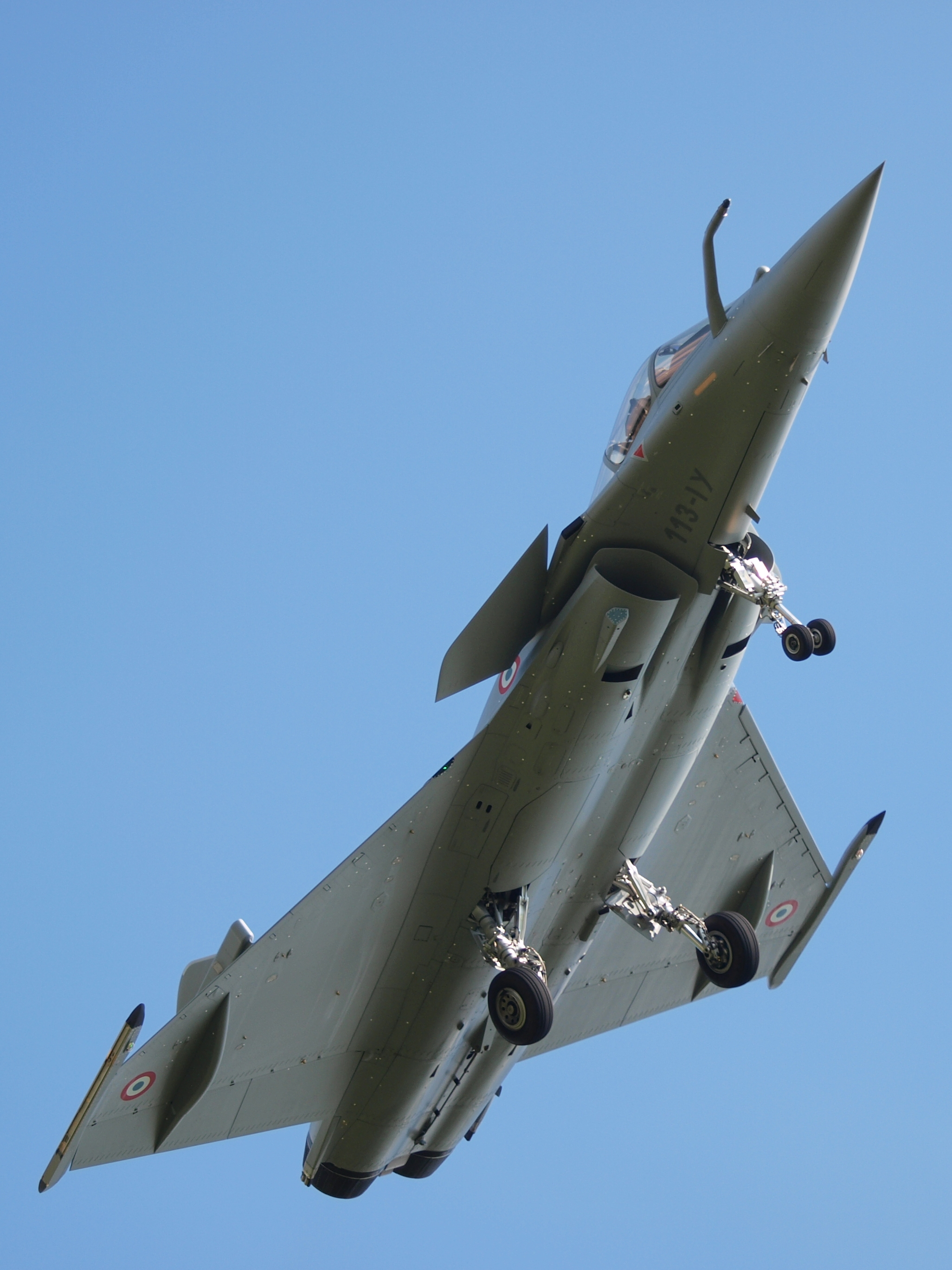 Armée de l'Air (French Air Force) Rafale C '113-IY' at Kecskeméti Nemzetközi Repülőnap 2010 flown by capitain Cédric 'Rut' Ruet.